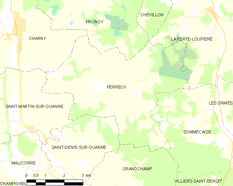 Map of French municipality Perreux